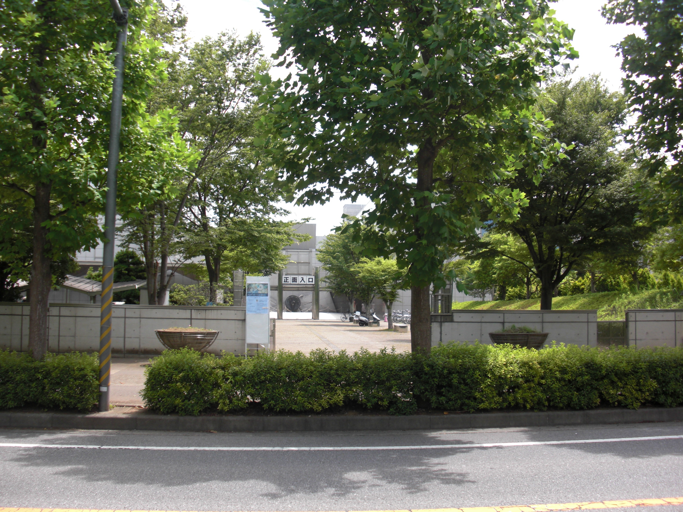 This is the building of Sawayaka Chiba Kenmin Plaza, which is located in Kashiwa, Chiba, Japan.